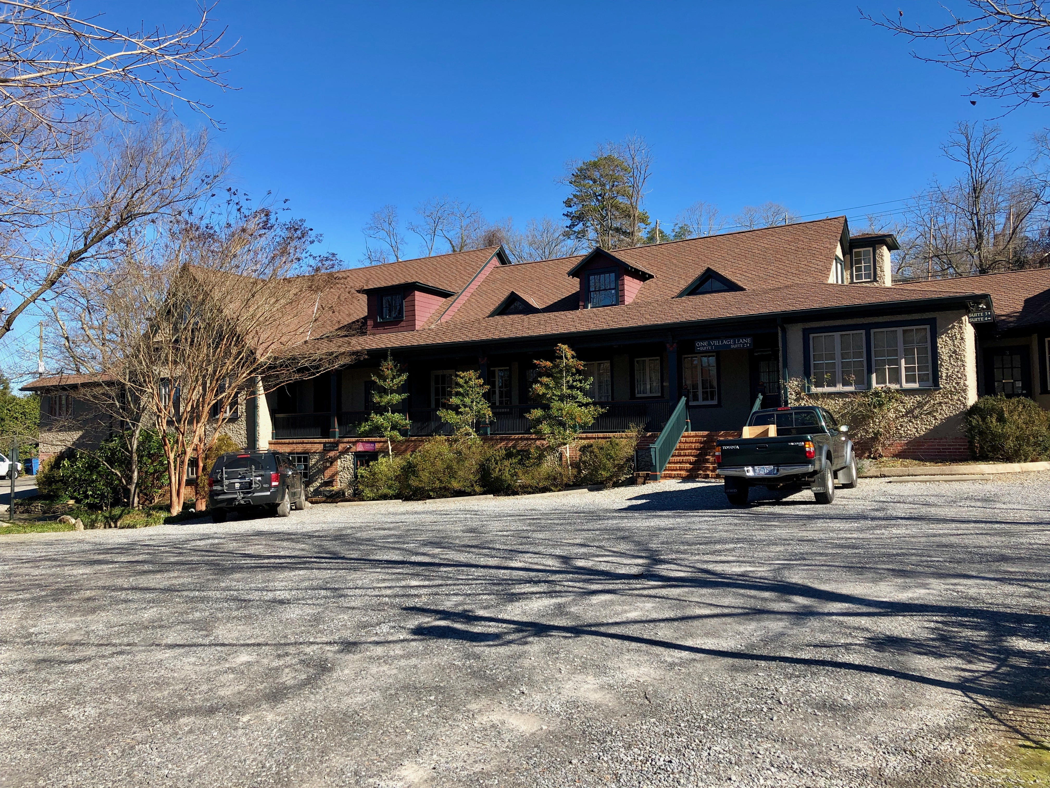 Clarence Baker Memorial Hospital, Biltmore Village, NC